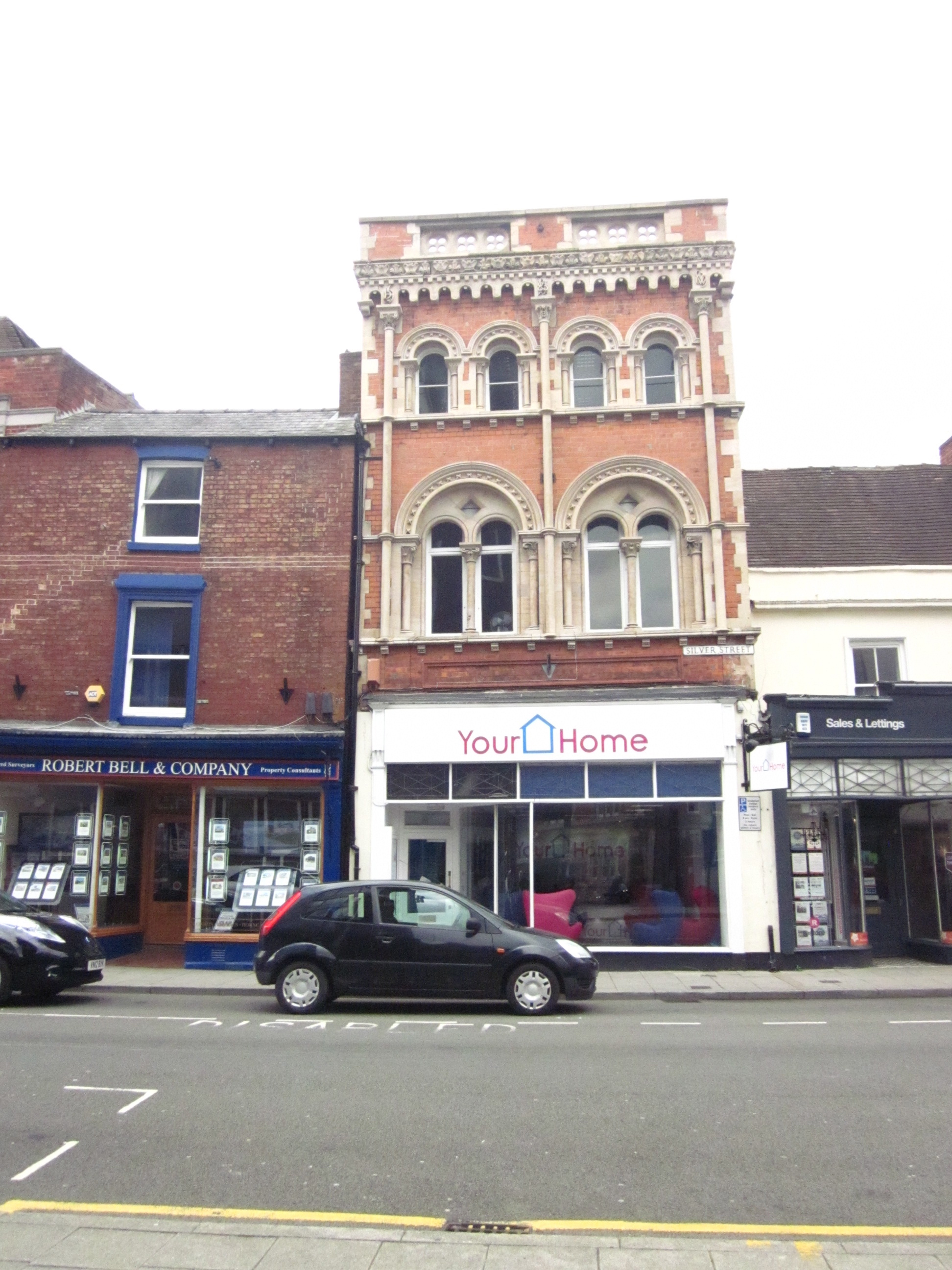 Romanesque Shop facade, Silver Street, Lincoln